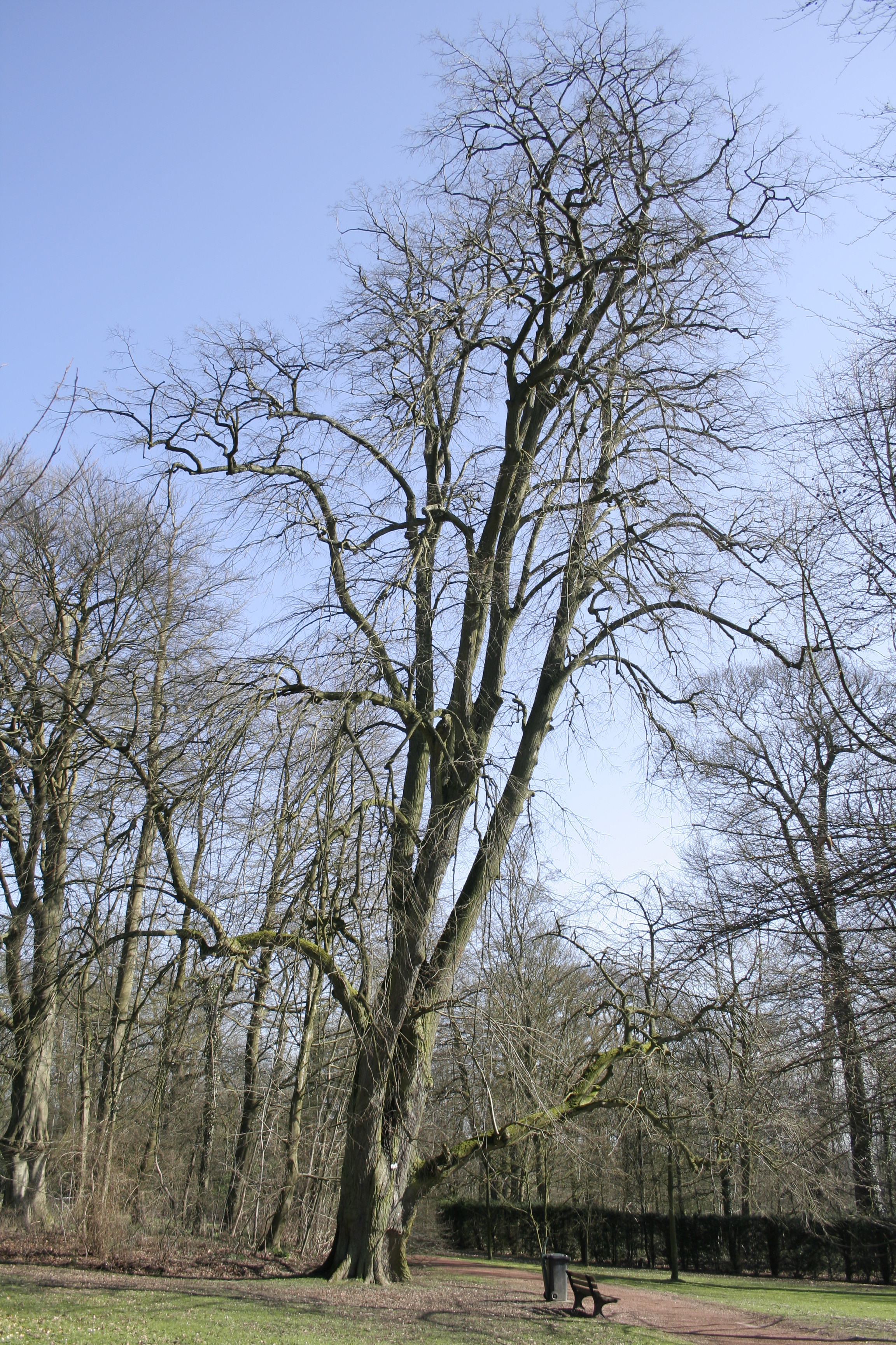 Weeping silver lime or Pendant Silver Linden.